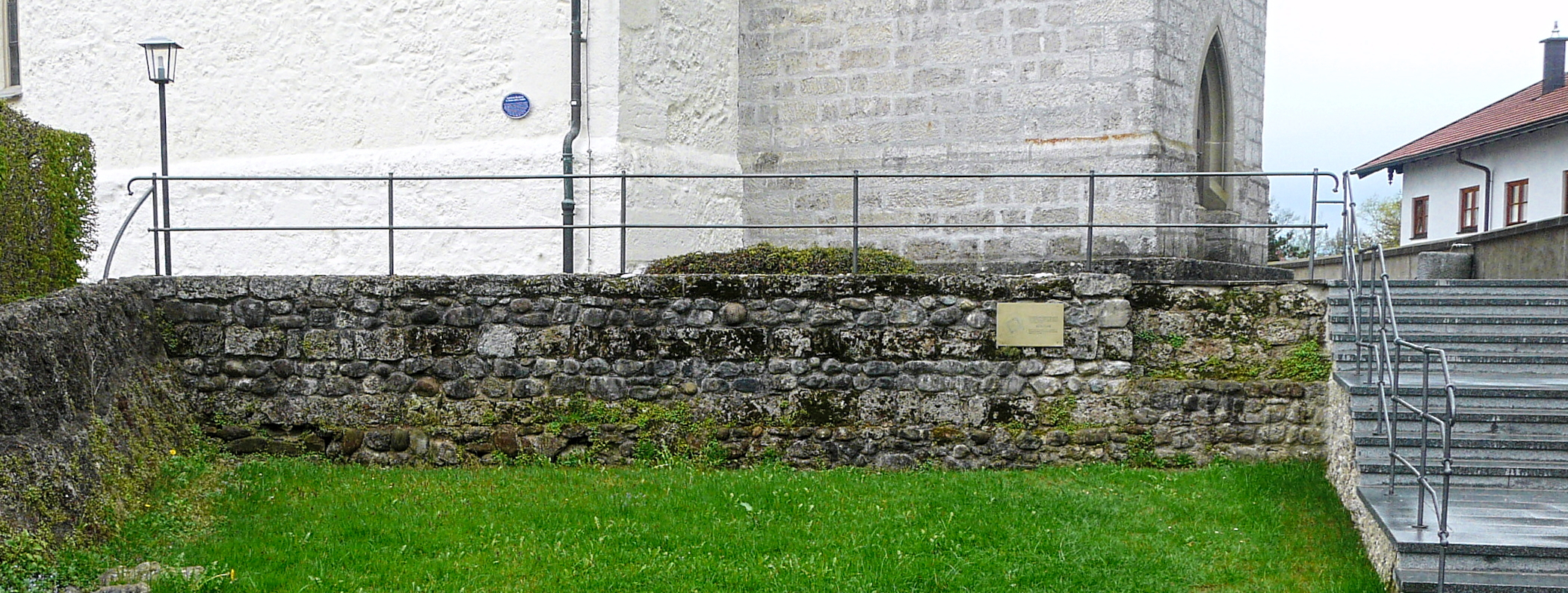 Reconstruced wall of Roman fort BEDAIUM in North-West of parish church St. Thomas and Stephan in Seebruck at lake Chiemsee, Upper Bavaria.